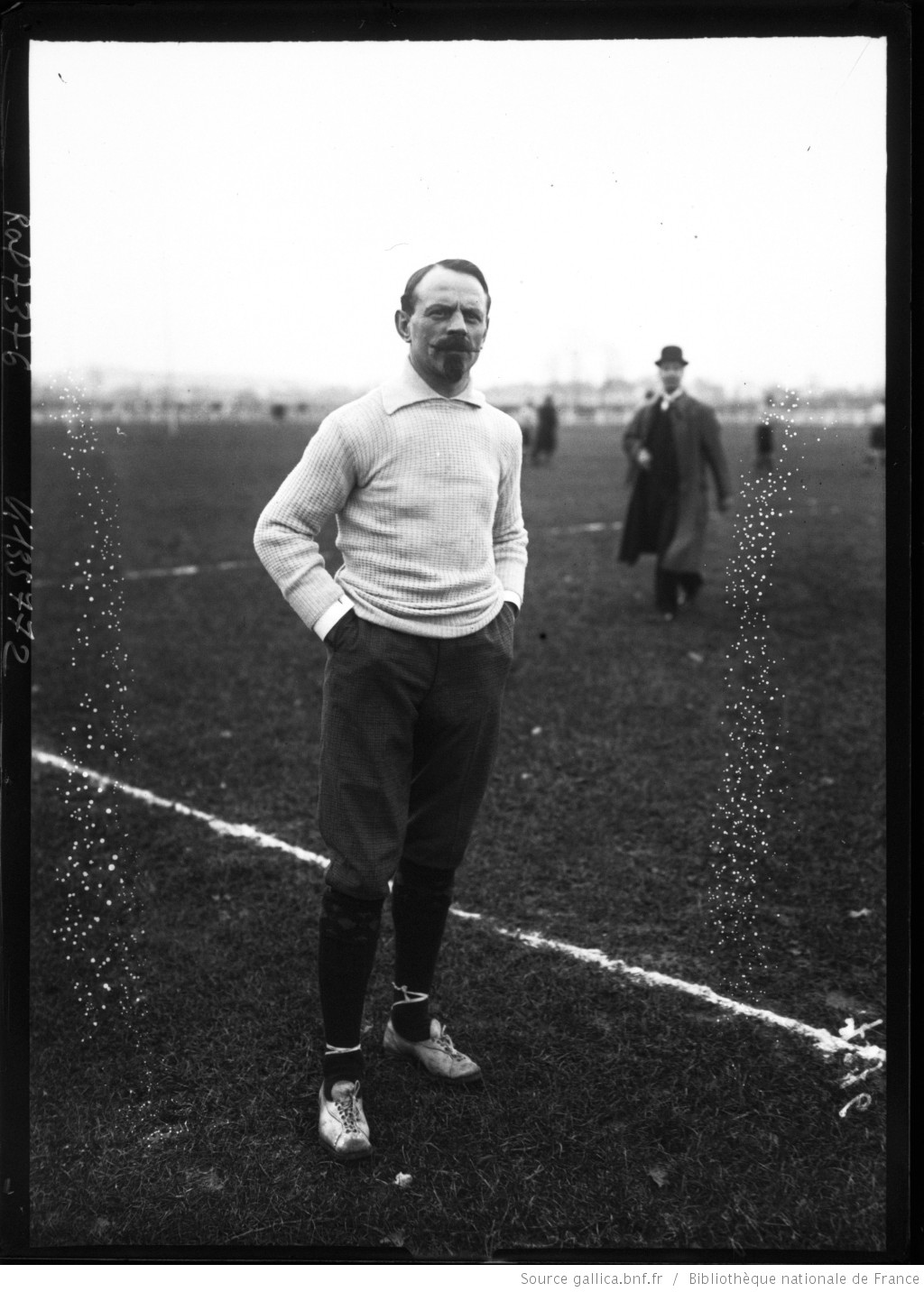 Frantz Reichel